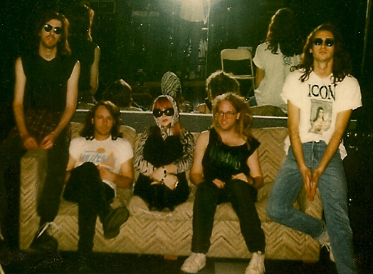 The Nymphs in their rehearsal space, 1989. Cliff Jones, Alex Kirst, Inger Lorre, Sam Merrick, Geoff Siegel